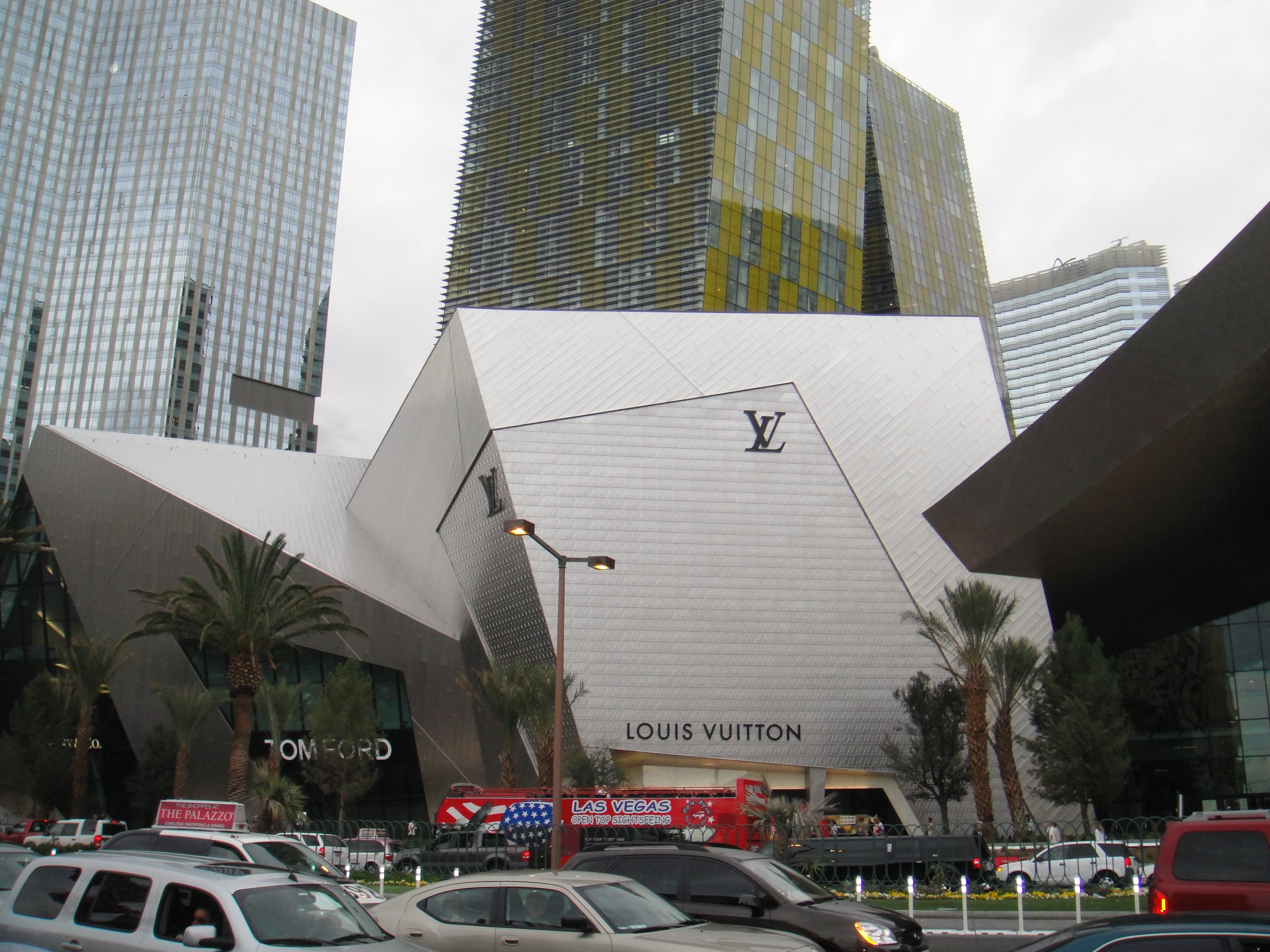 Exterior view along the Strip of the Crystals at the CityCenter development in Las Vegas, Nevada